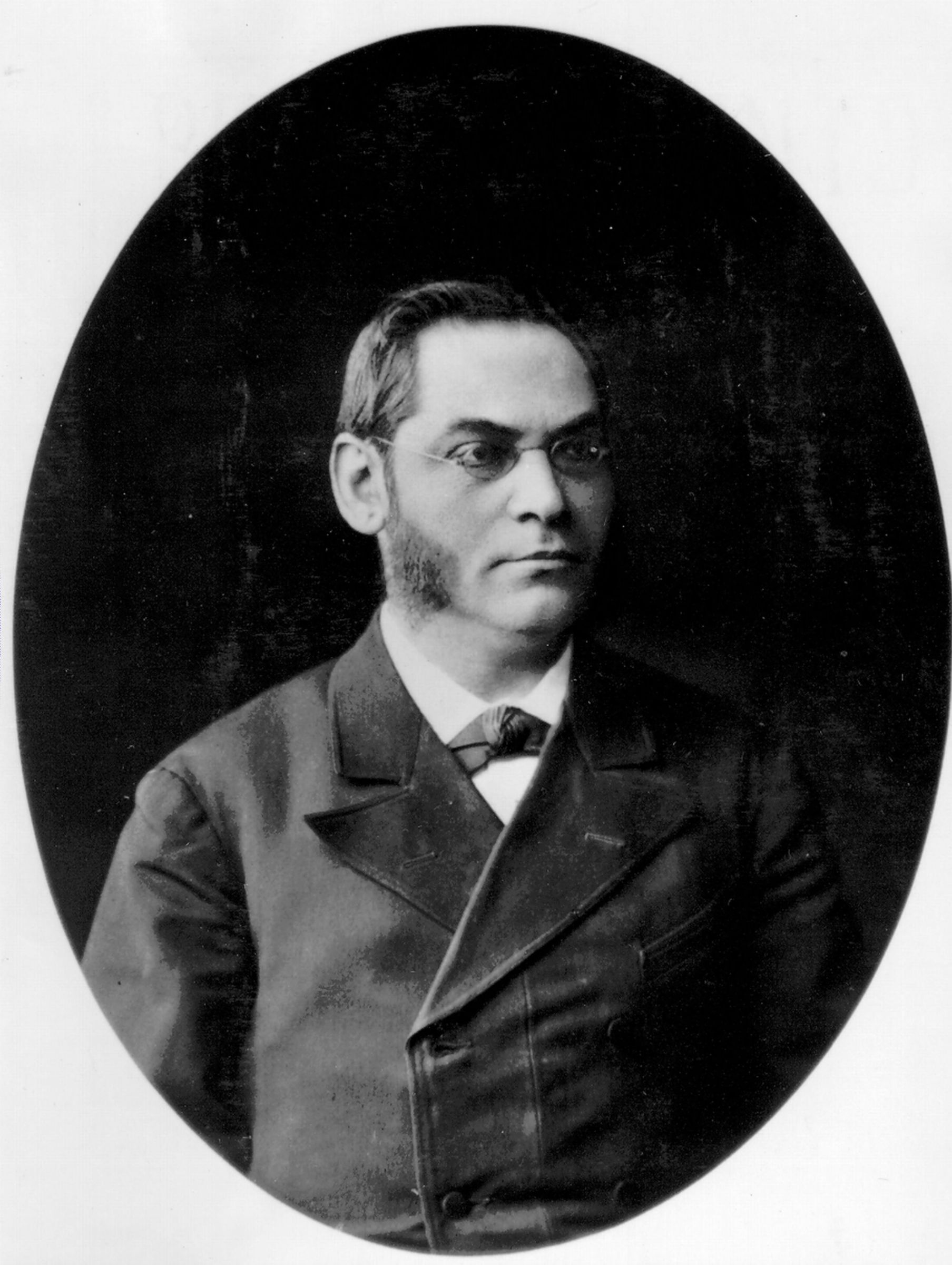 Portrait of Hebrew poet of the Jewish Enlightenment, Judah Leib Gordon